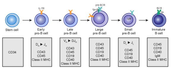 Early B cell development: stages from stem cell to immature B cell.